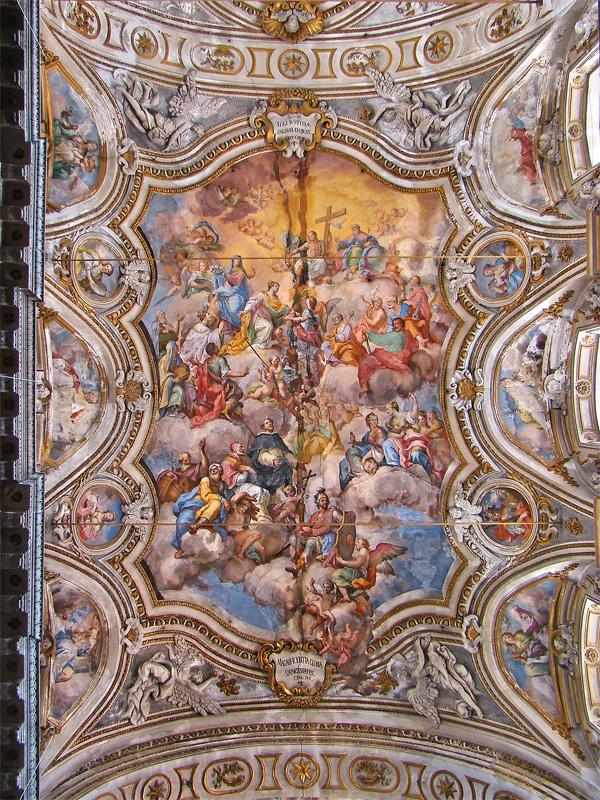 Church of Santa Caterina, Palermo, Sicily, Italy. The vault.